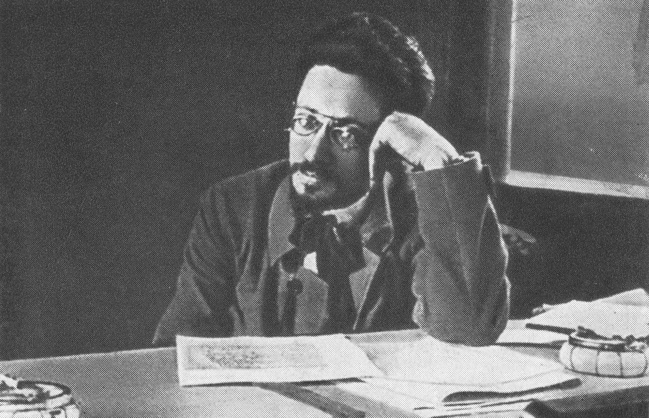 Politician of the USSR. Yakov_Sverdlov (1885-1919)